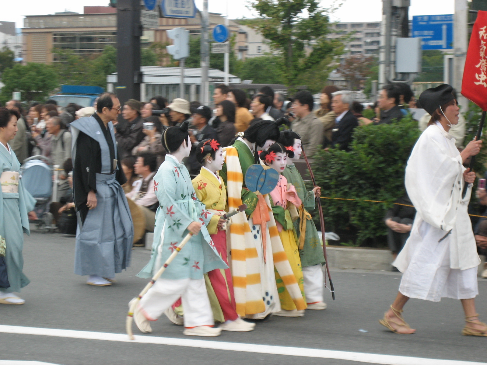 I took this photo at the Jidai Festival in Kyoto on October 22nd, 2005.